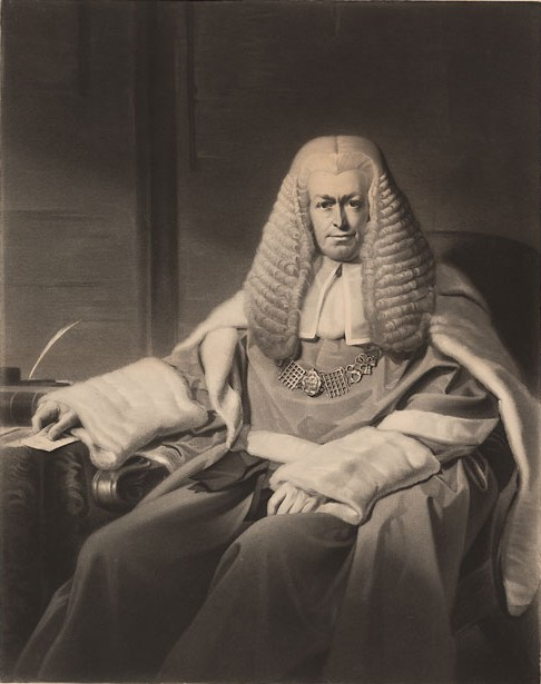 An engraved portrait of Sir John Jervis (12 January 1802 – 1 November 1856), an English lawyer, law reformer and Attorney General in the administration of Lord John Russell. He subsequently became a judge and enjoyed a career as a robust but intelligent and innovative jurist.